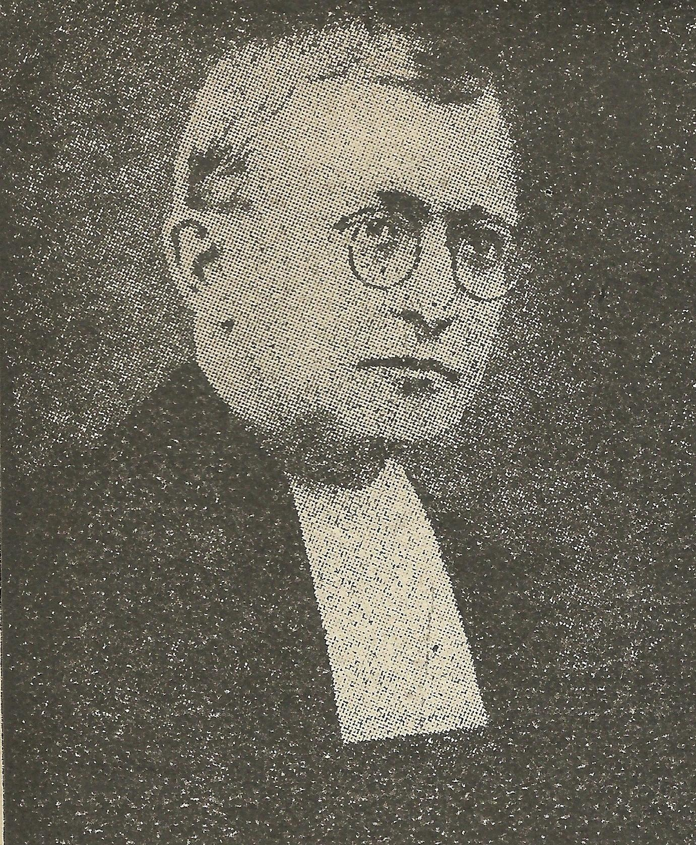 Louis Riboulet (1871-1944), French writer and educator.